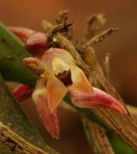 Anathallis bolsanelloi